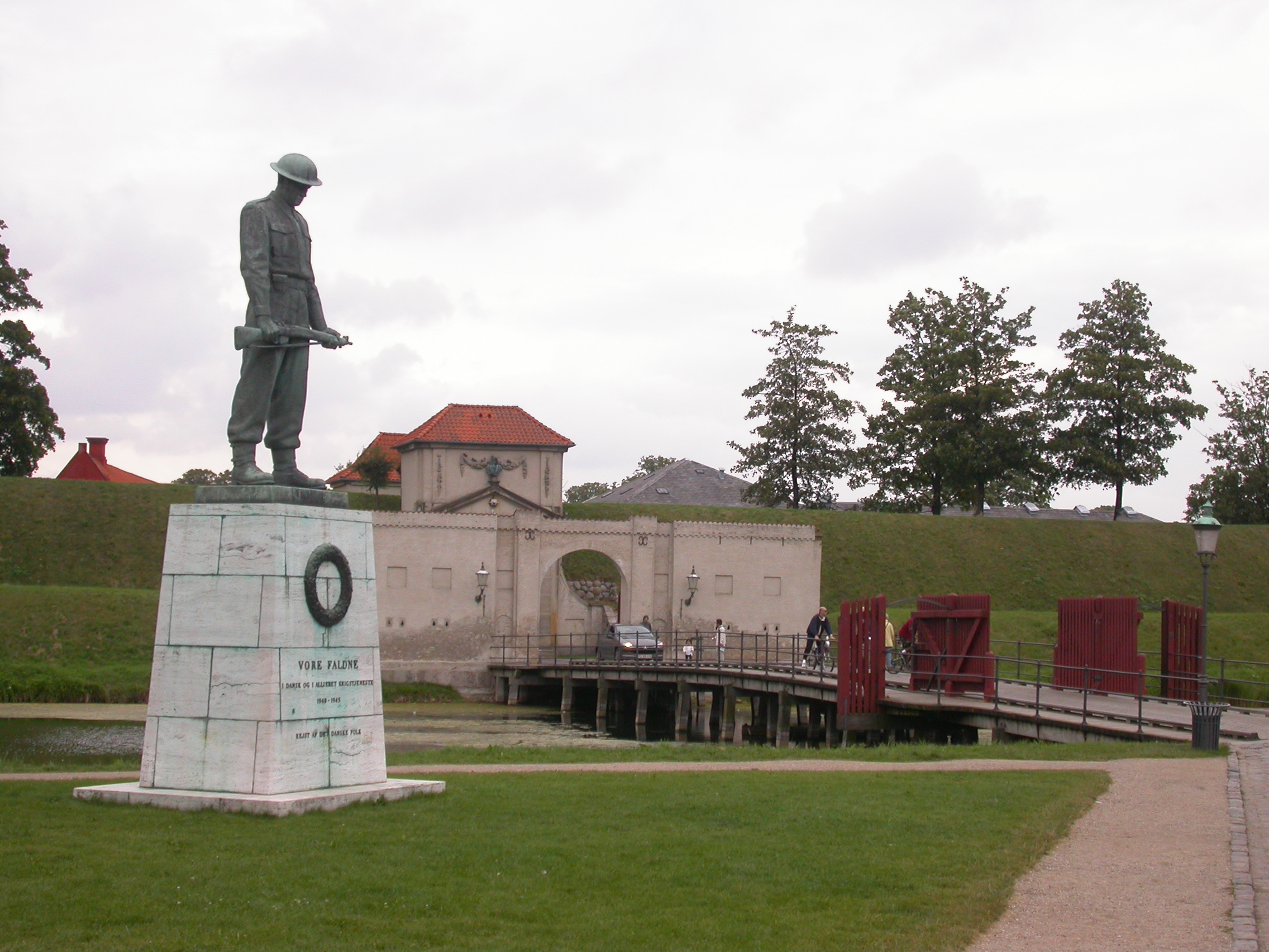 Churchillparken in Copenhagen, Denmark. A war memorial conmemorating soldiers fallen in World War II and in the vackground the King's Gate, on of the two entrances to Kastellet, a 17th century citadel